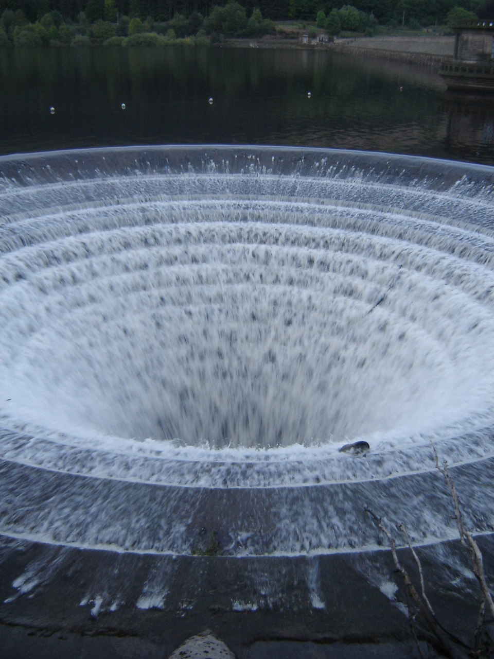 I took this photo in May 2006 when we went for an evening walk up around the dams